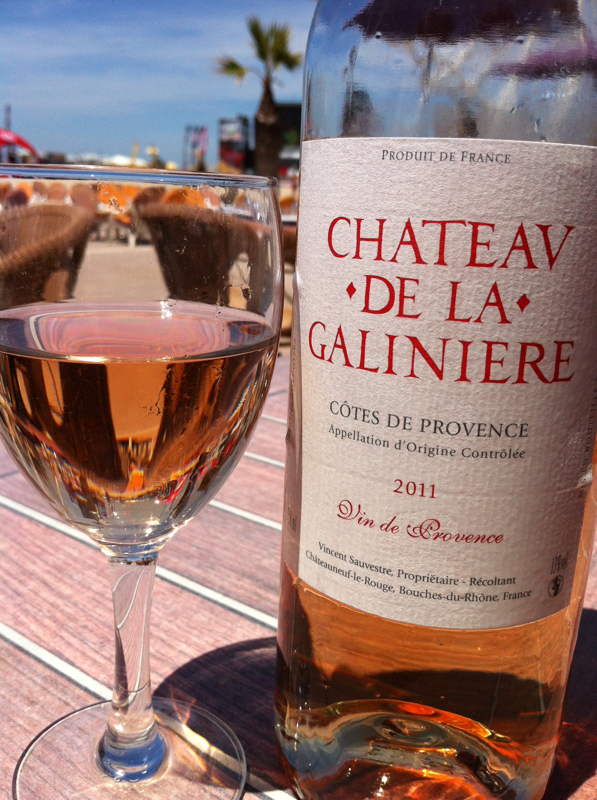 A rose from the Cotes de Provence wine region of France